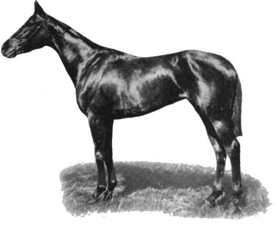 Cherimoya, winner of the 1911 Epsom Oaks.